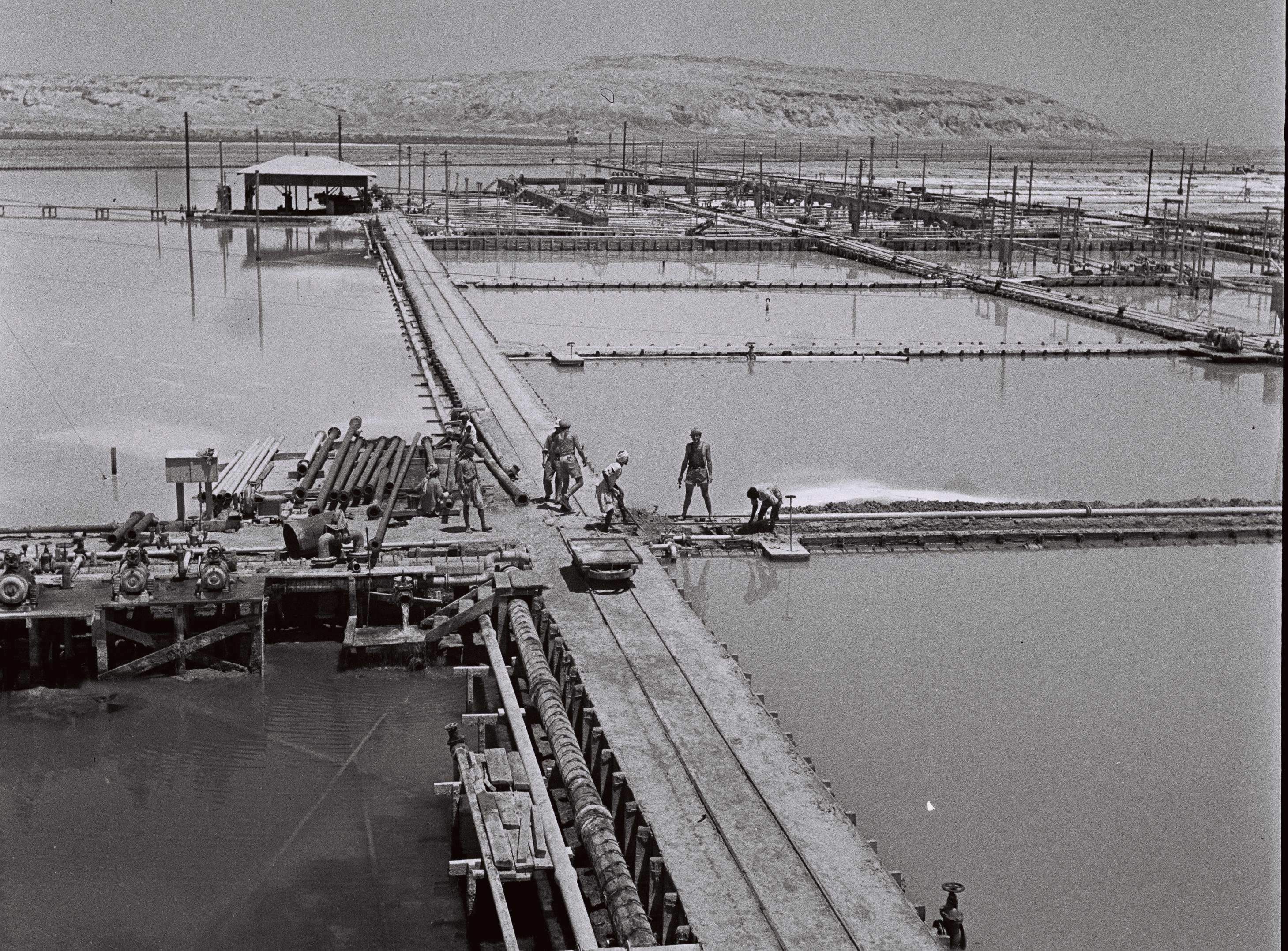 THE EVAPORATION POOLS AT THE SODOM POTASH FACTORY IN THE DEAD SEA.. בריכות האידוי בים המלח Photo: Zoltan Kluger (1896–1977) Alternative names Qlwger, Zwlṭan; Zolṭan Ḳluger; Kluger, Z.; W. von Szigethy; W. Von SzighethyDescriptionHungarian-Israeli photographerDate of birth/death 8 February 1896 16 May 1977Location of birth/death Kecskemét ManhattanAuthority control : Q7035699 VIAF: 19504001 ISNI: 0000 0000 6686 1613 ULAN: 500483392 LCCN: no2008144265 Open Library: OL6614008A WorldCat creator QS:P170,Q7035699 , GPO, 07/30/1944.